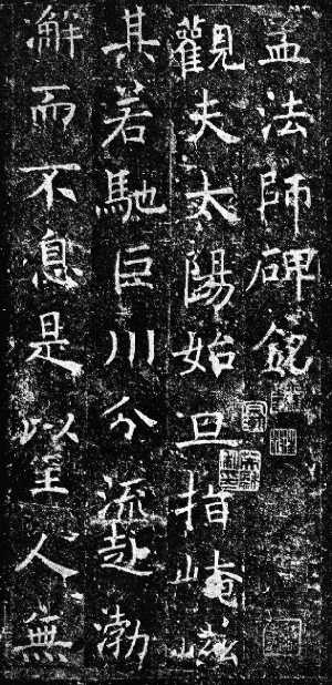 Meng Fa Shi Bei